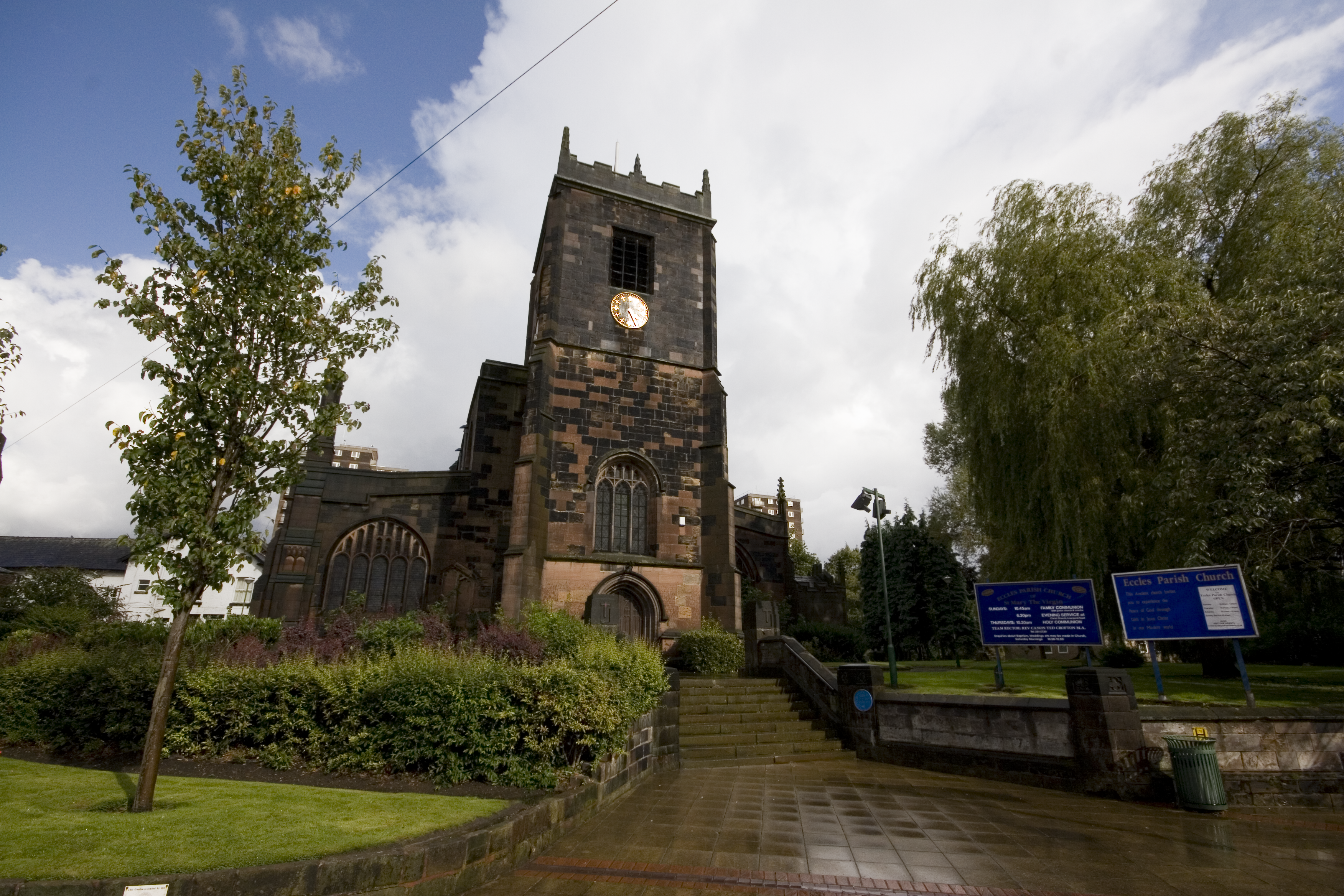 The parish church of St. Mary, in Eccles, Greater Manchester.